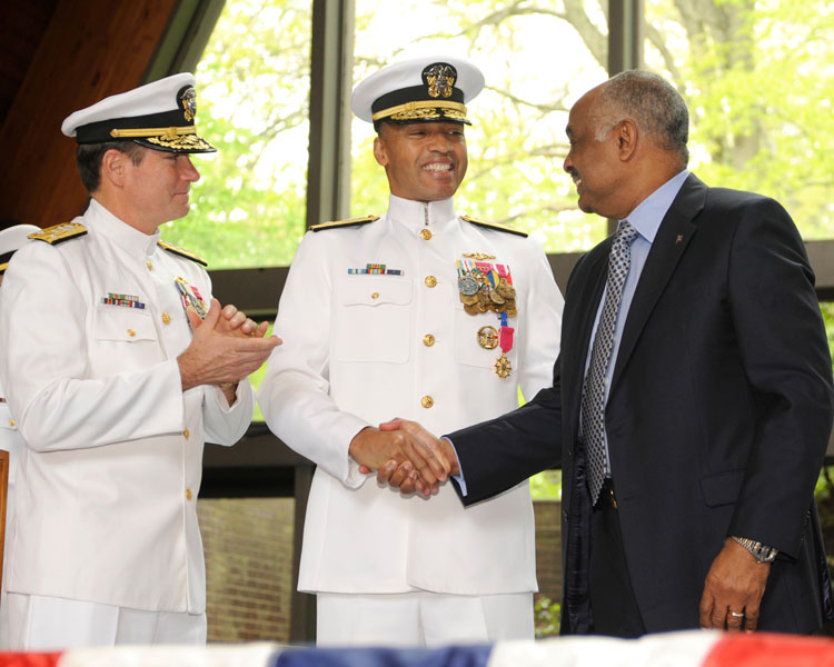 RDML Bruce E. Grooms at the Submarine Group Two Change of Command